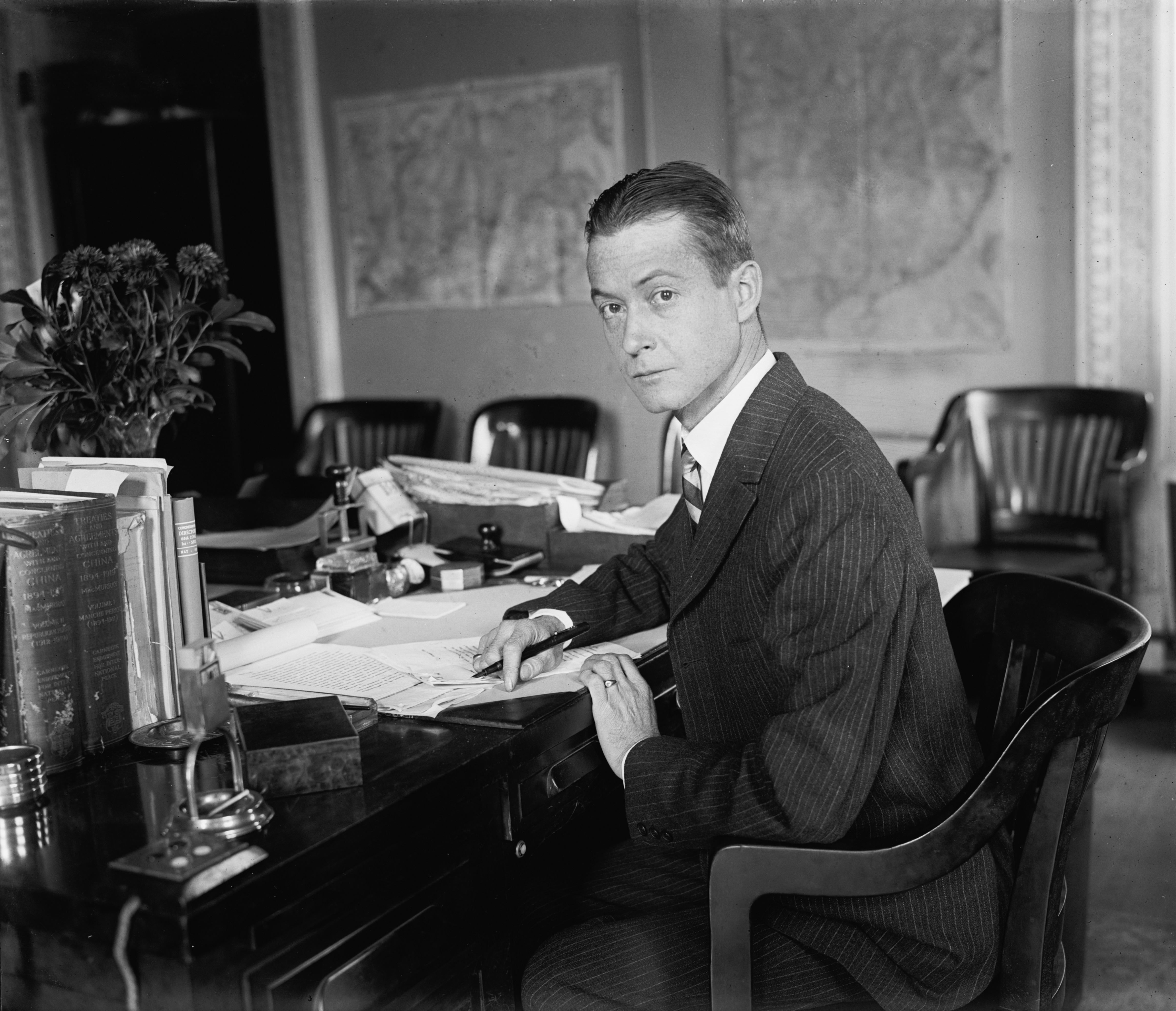 John Van A. MacMurray, Asst. Sec. of State.